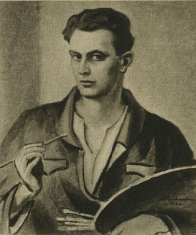 Oldřich Kerhart, self portrait, 1941